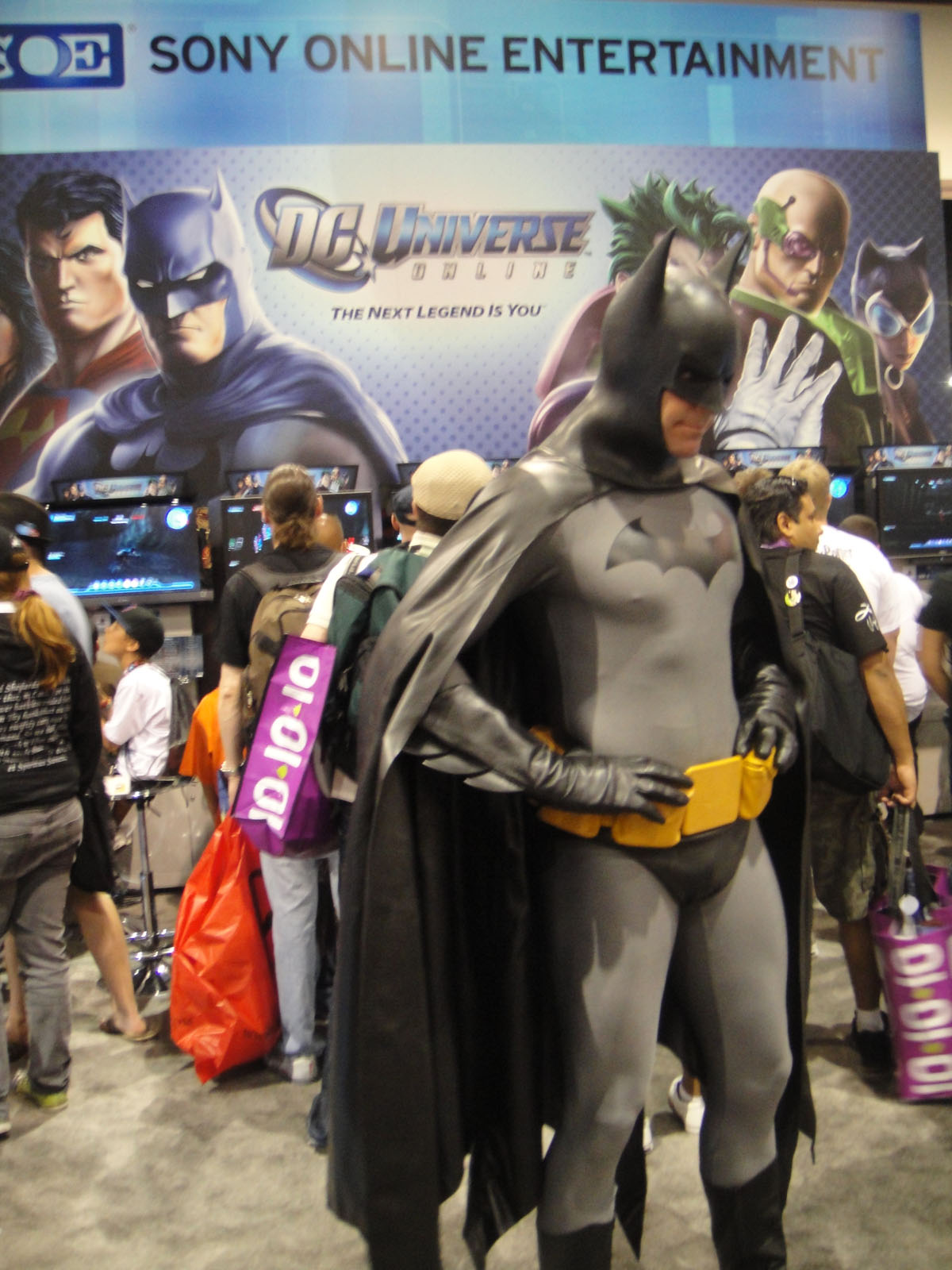 Comic-Con 2010 - Batman at the DC Universe Online booth